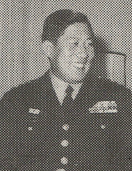 Lieutenant General Yu Jae-hung, Republic of Korea Army.